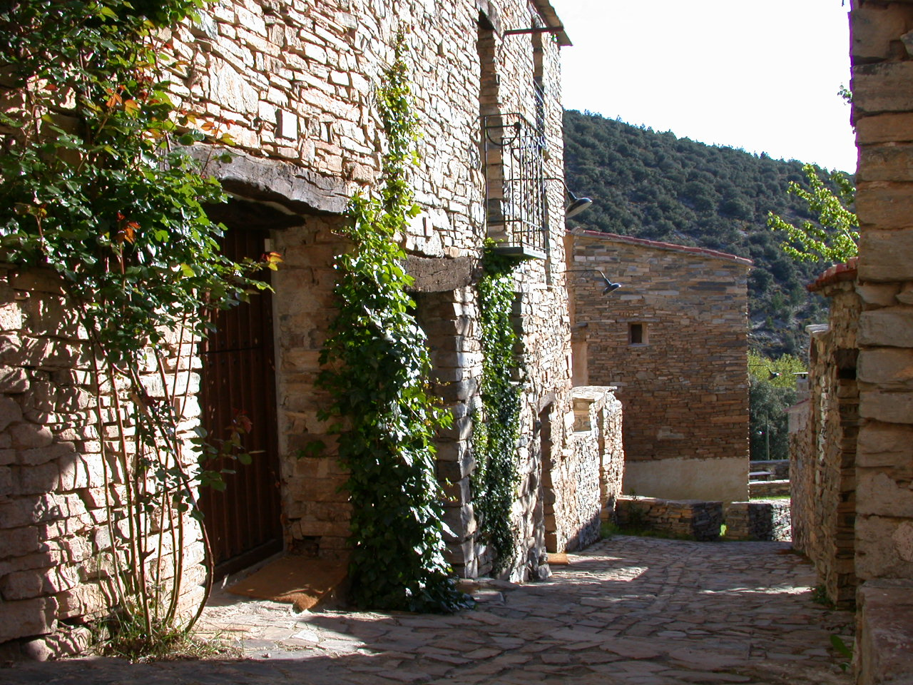 detalle valdelavilla